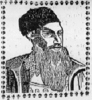 A representation of Manoel de Souza Sepúlveda circa 1540~1550. No more information possible.